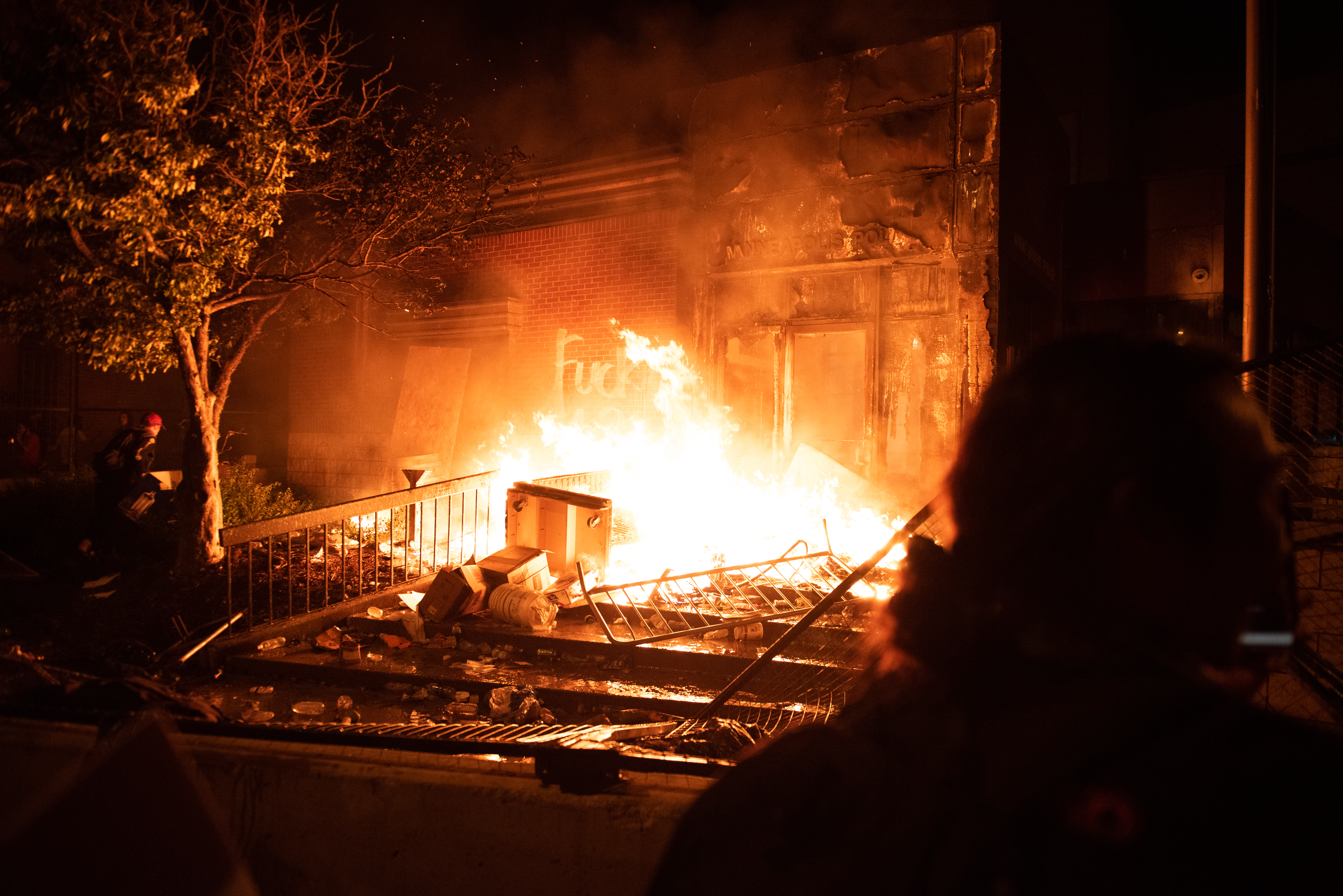 Protesters overtaking and burning the Minneapolis Police's 3rd Precinct. For more information, please see George Floyd protests in Minneapolis–Saint Paul#Loss of the third precinct station.